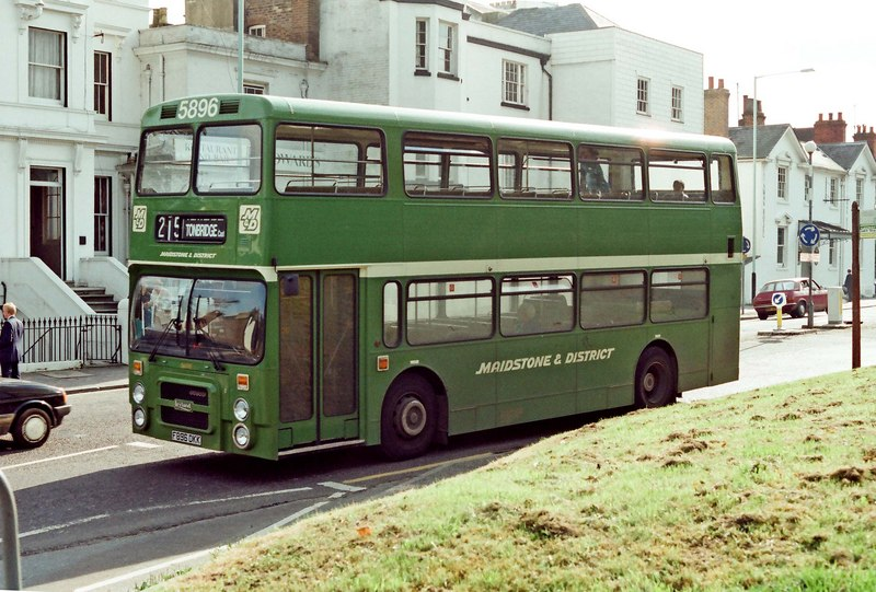 Maidstone & District bus no. 5896 (Leyland Olympian) in London Road, Data from Geograph: Description: The predominently green buses of the Maidstone & District company were a familiar part of the townscape of Tunbridge Wells and surrounding towns for decades. The company was long ago absorbed by the Arriva group, and the livery... more ICBM: 51.126140570477, 0.25720796330072 Location: (about 1 km from) near to Royal Tunbridge Wells, Kent, Great Britain.